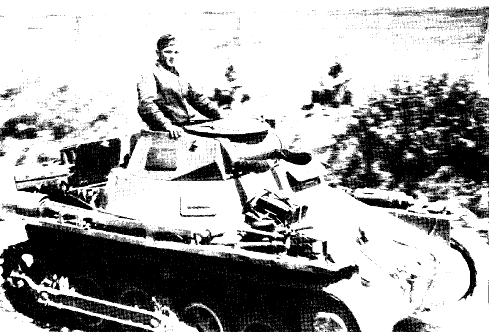 Source: Perret, Bryan, German Light Panzers 1932-41; attributed, however, to U.S. National Archives.